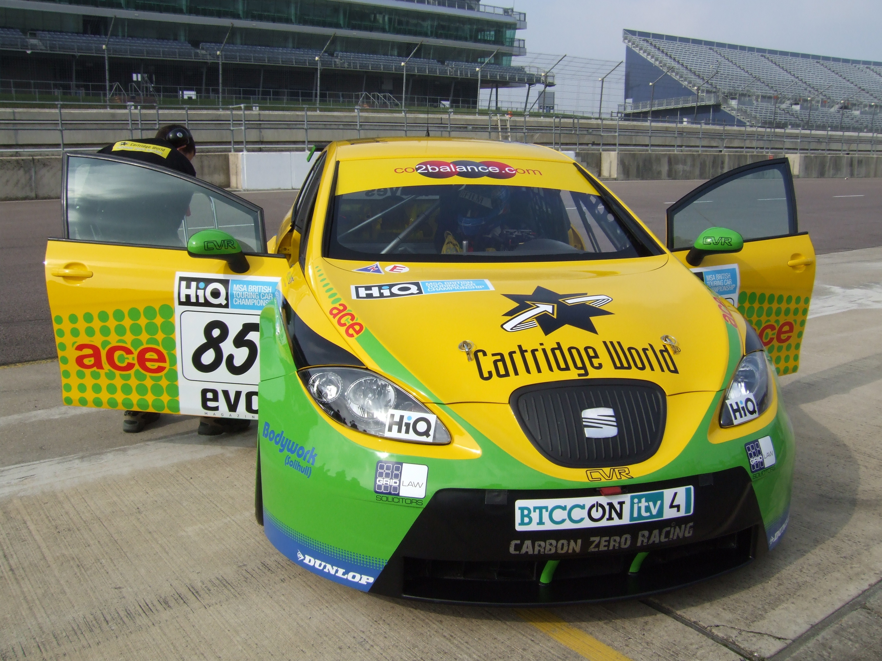 From BTCC Media Day held at Rockingham Speedway. Dan Eaves' SEAT Leon car run by Carbon Zero Racing, with main sponsor Cartridge World Racing. Dan Eaves' car has green wing mirrors & wears number 85 whereas team mate Adam Jones' has yellow mirrors & number 9.